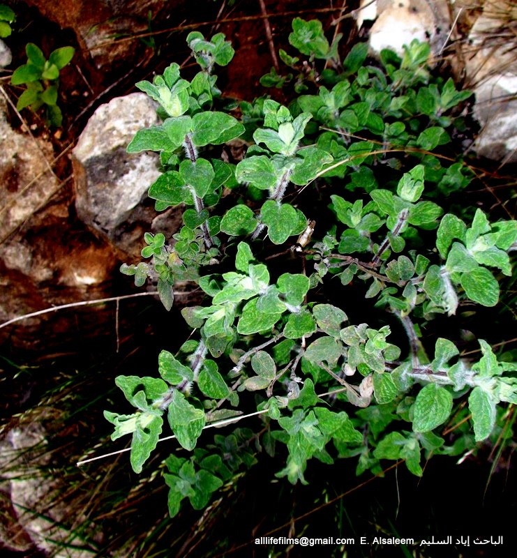 نبات برّي سوري يؤكل